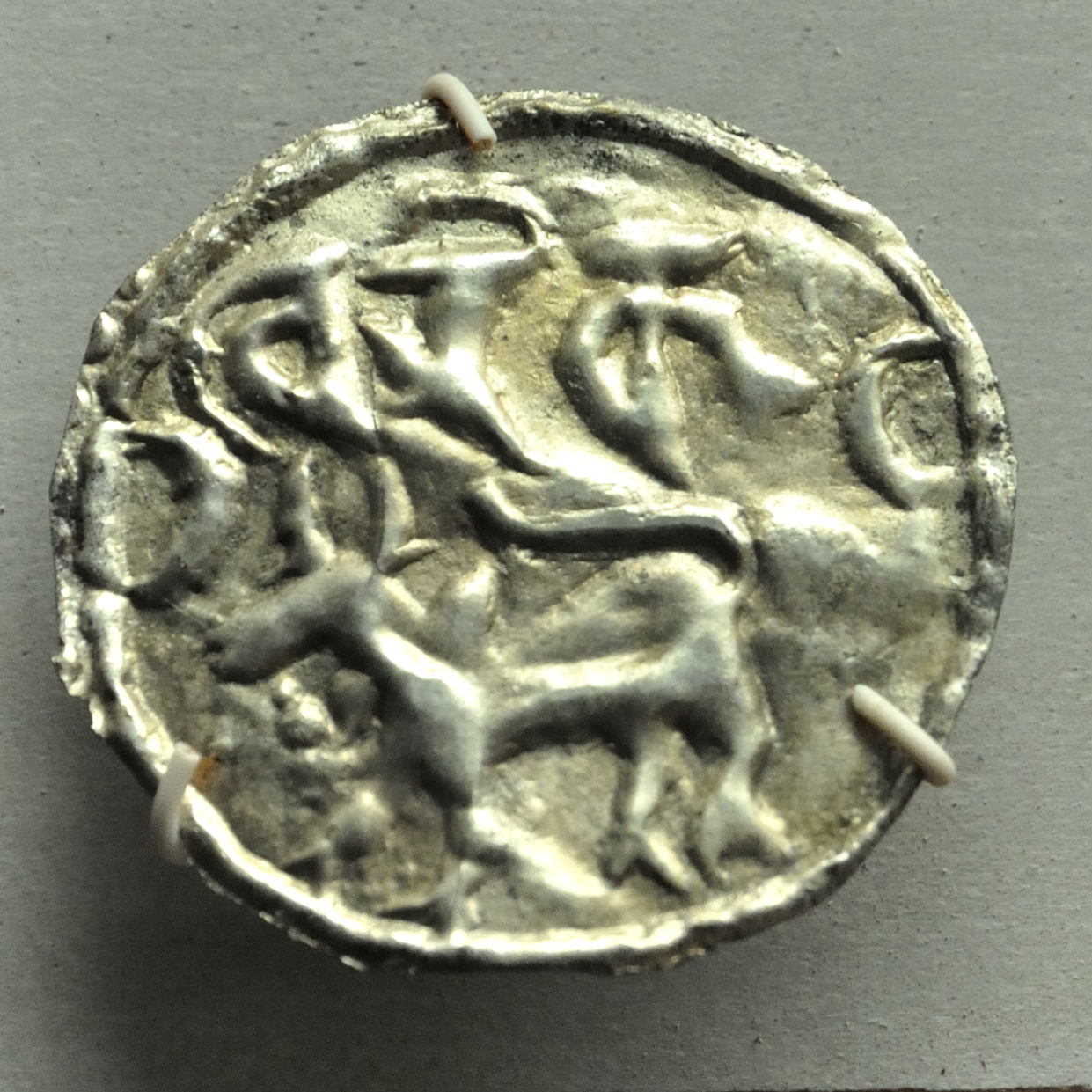 Photographed in Kolkata